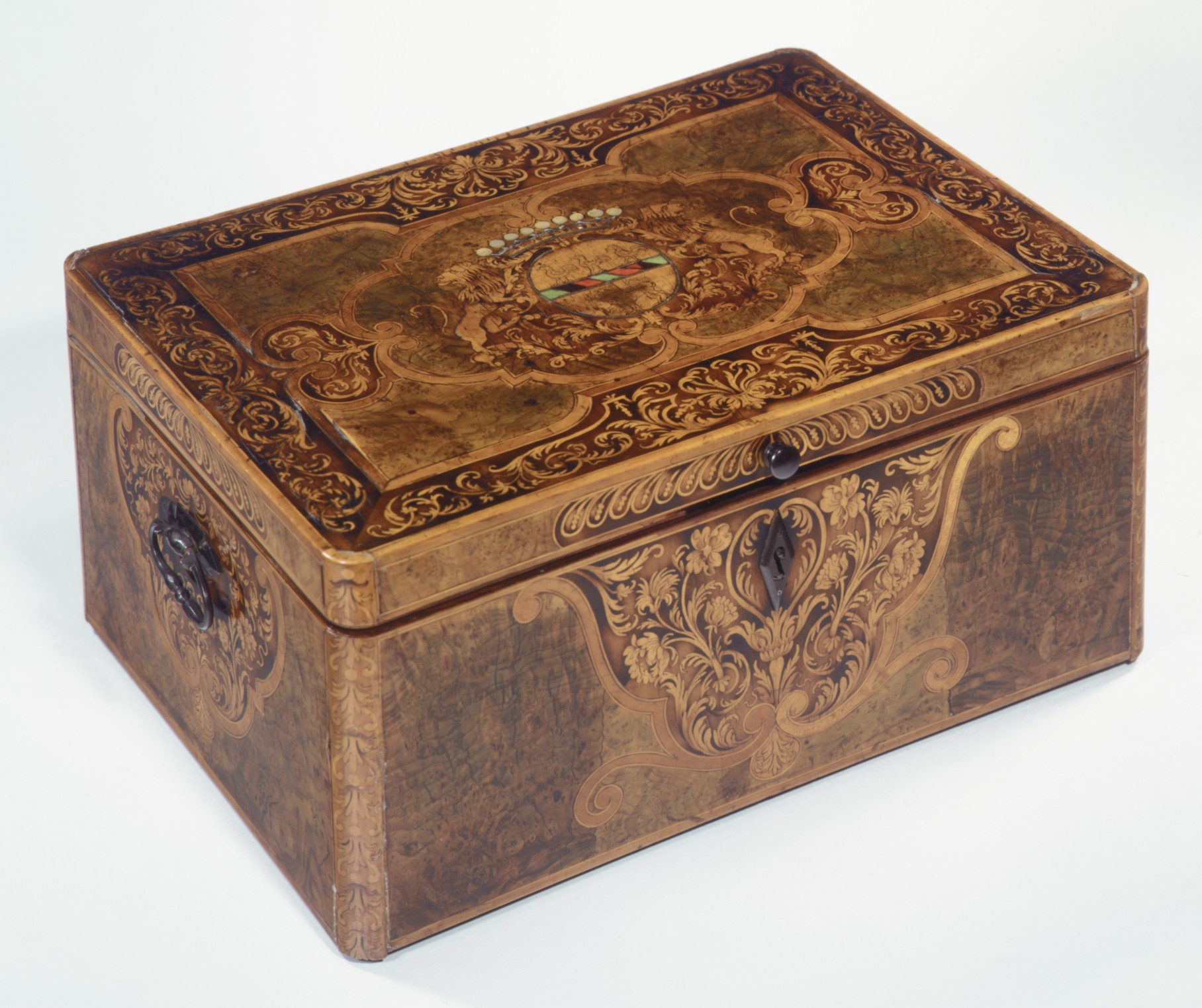 French, Grenoble; Box; Woodwork-Furniture